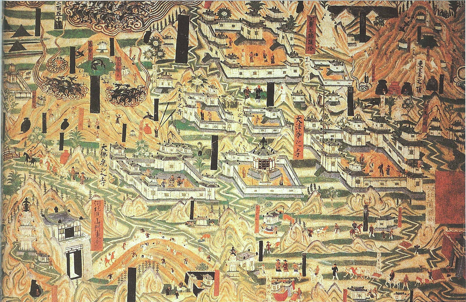 A mural painting from Cave 61 at the Mogao Caves, Dunhuang, Gansu province, China, dated to the 10th century and depicting Tang Dynasty monastic architecture from Mount Wutai (五臺山/五台山), Shanxi province.